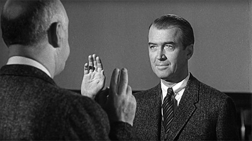 Cropped screenshot of the film Anatomy of a Murder